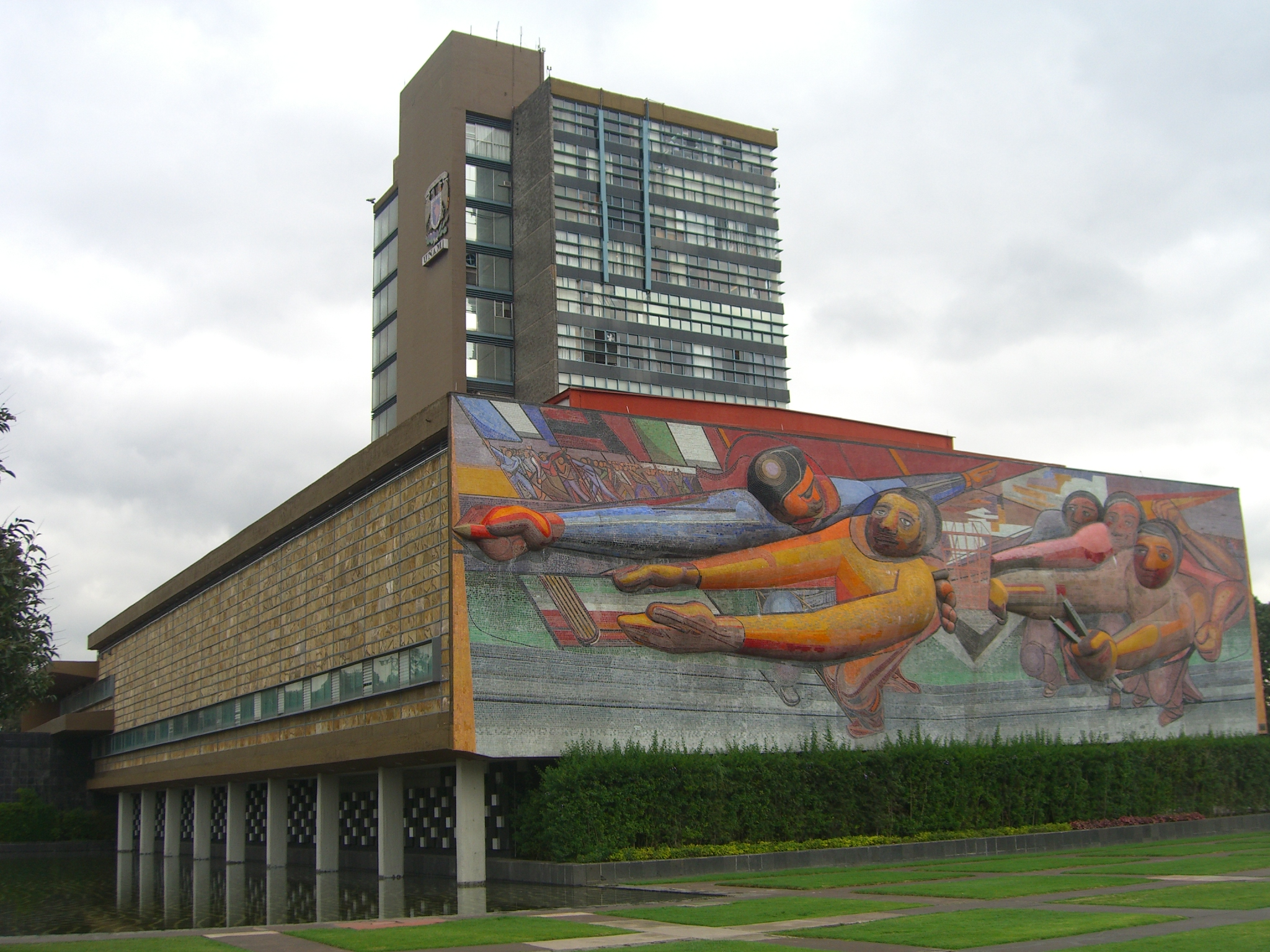 Administrative building of the National Autonomous University of Mexico on the campus of Mexico City.